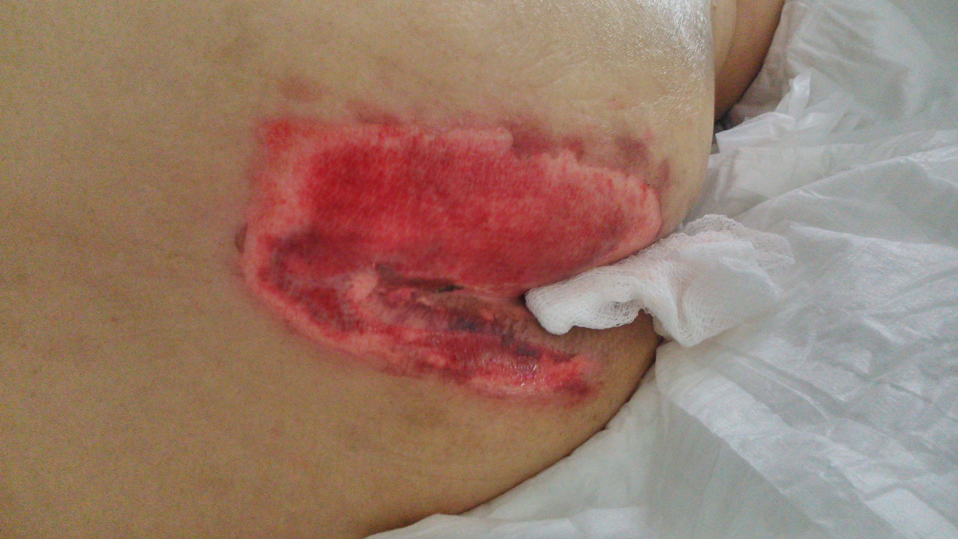 Bedsore in region sacra